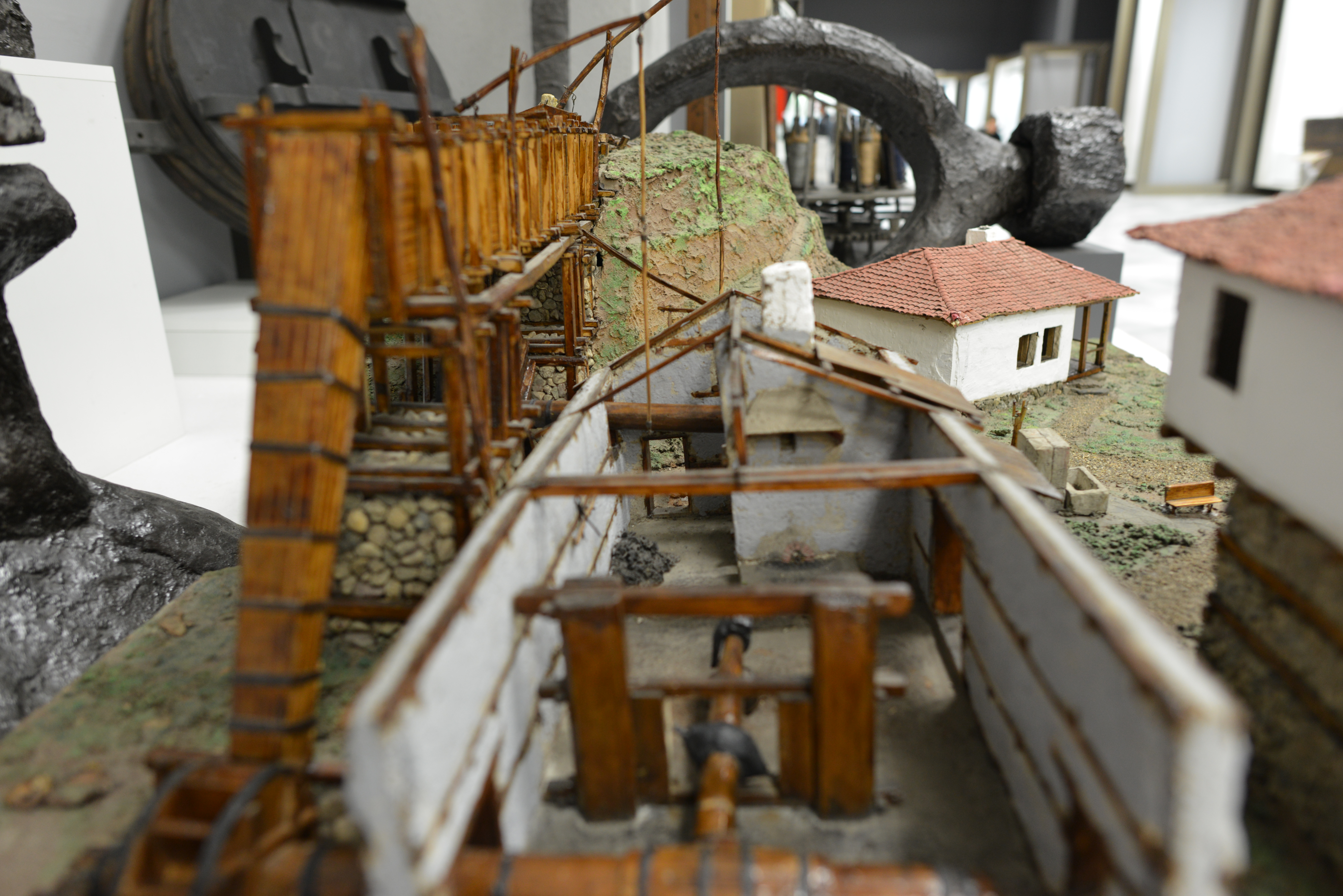 Model of a samokov. Exhibited at the National Polytechnic Museum, Sofia.